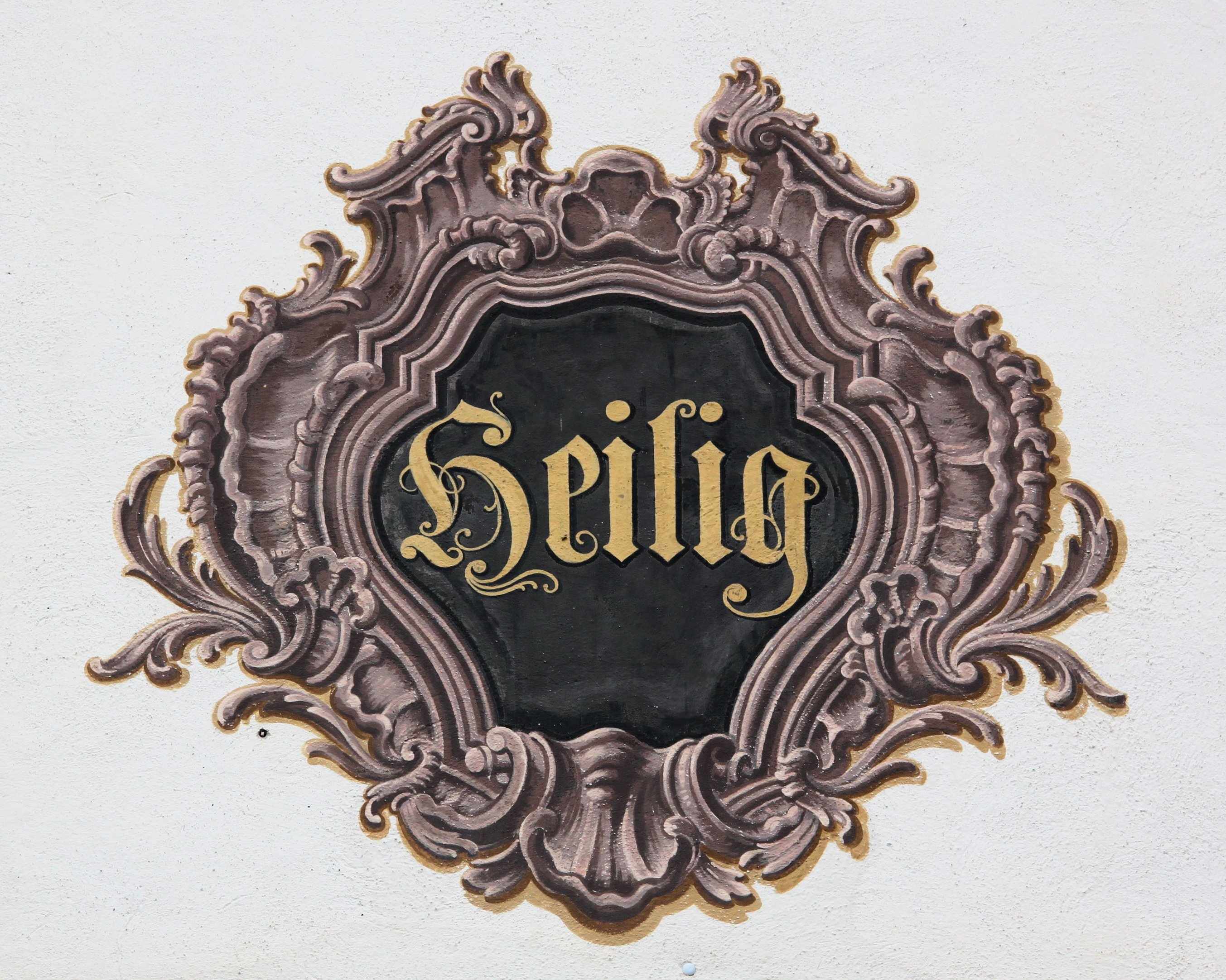 „Heilig“ (Holy) vignette over the western side entrance of Ottobeuren Abbey basilica.